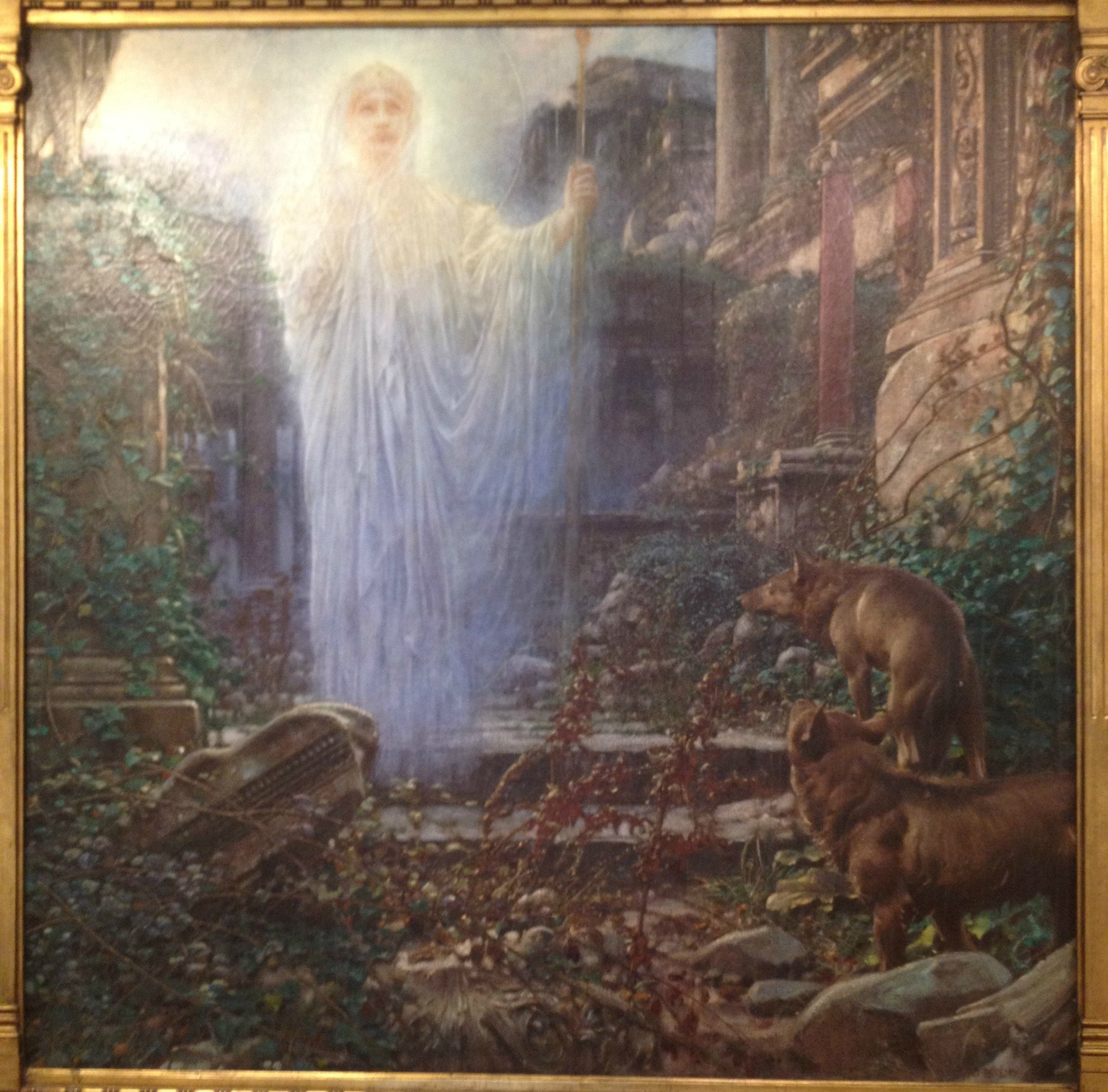 Paintings by Adolf Hirémy-Hirschl